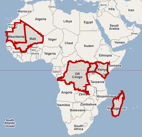 Projects of the African-Hungarian Union in Africa.